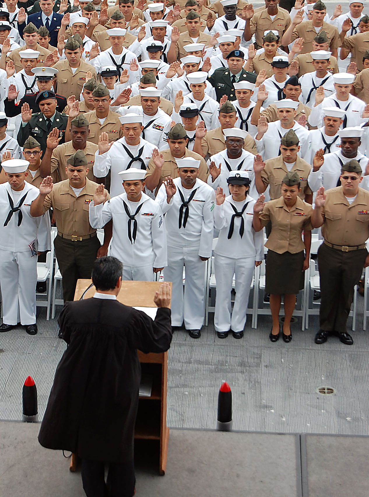 SAN DIEGO, Calif. (May 28, 2009) Sailors, Marines, Soldiers and Airmen recite the pledge of allegiance during a naturalization ceremony at the USS Midway Museum. Marine Corps Master Sgt. Cutberto Orozco led the pledge of allegiance for ninety-three San Diego based service members representing thirty-two countries during the ceremony. (U.S. Navy photo by Legalman 1st Class Jennifer L. Bailey/Released)